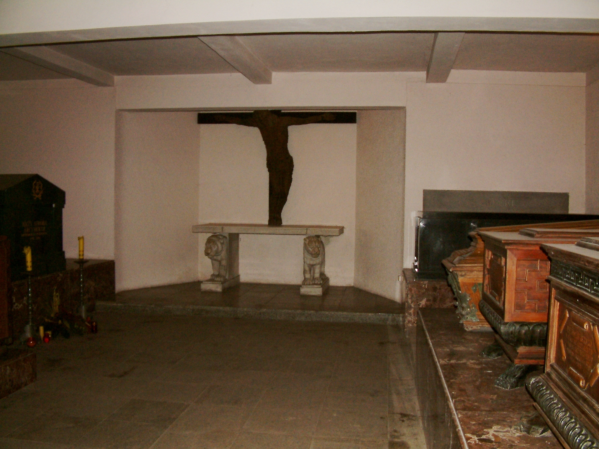 Archbishopric Crypt, underground of Poznań Archcathedral Basilica of St. Peter and St. Paul.